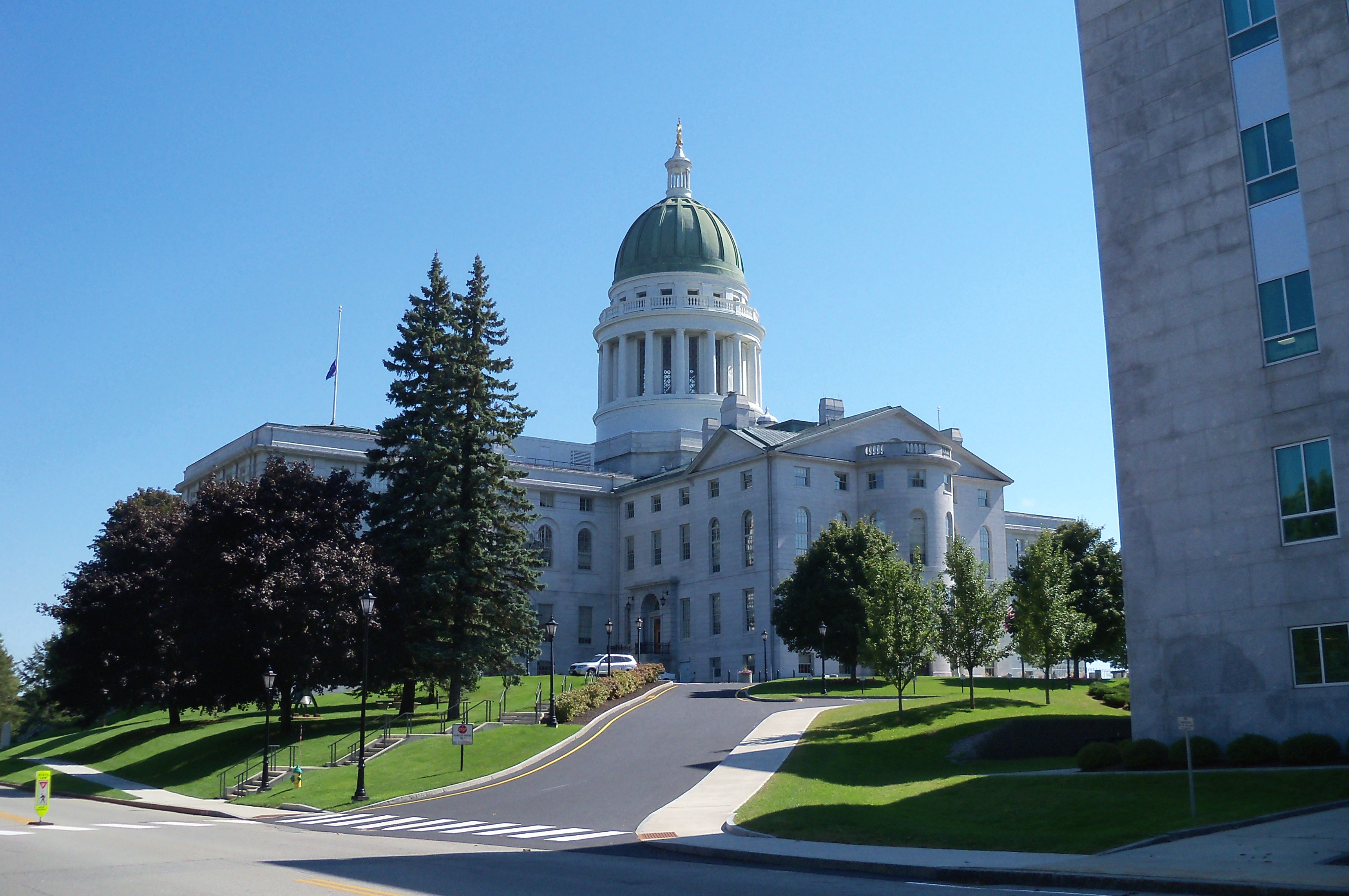 Maine State House in Augusta, Maine, USA.